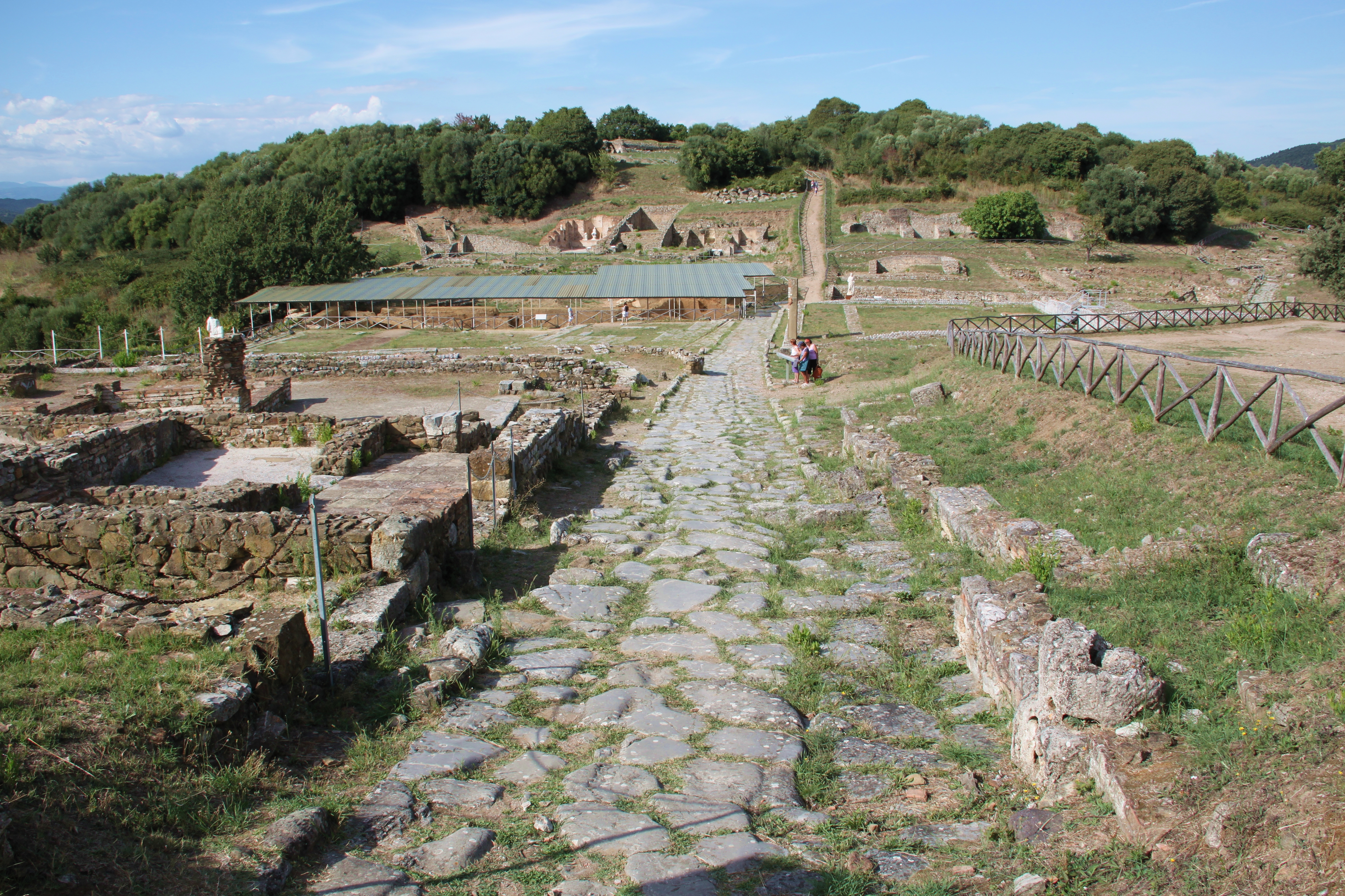 Archaeological Park of Roselle: central area (as seen from the south) Left of the Roman road: foreground: House of Mosaics; temple middle: forum; (canopied:) Etruscan house with an enclosure and house with two rooms background: Basilica dei Bassi; curia (i.e. meeting house) Right of the Roman road: basilica; shops